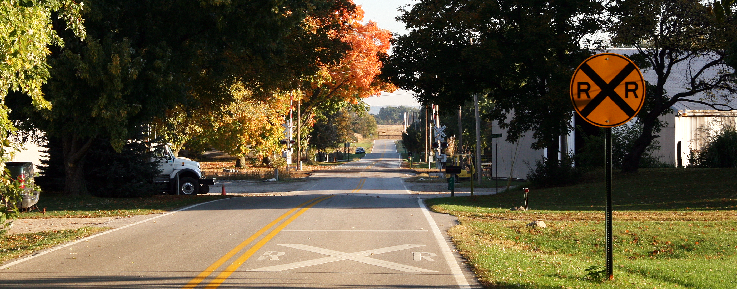 Looking north along Tippecanoe County Road 700 West into the community of Glen Hall, Indiana, just north of the town of West Point.